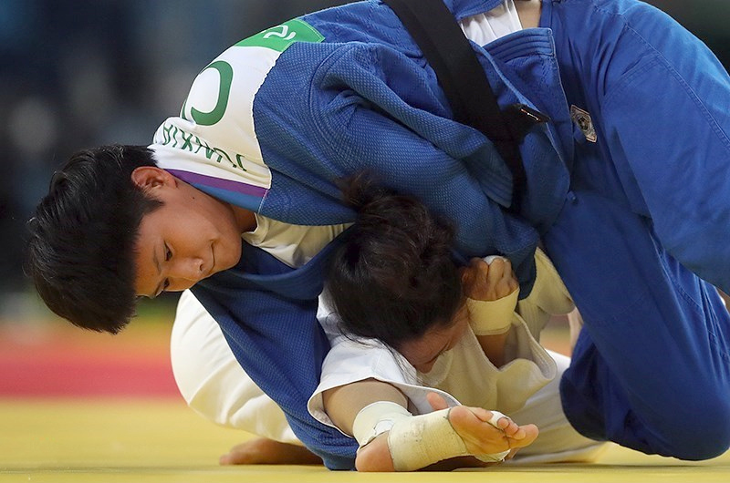 2016 Summer Olympics Judo, August 9